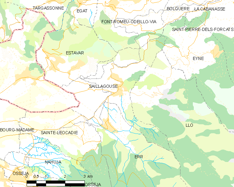 Map of French municipality